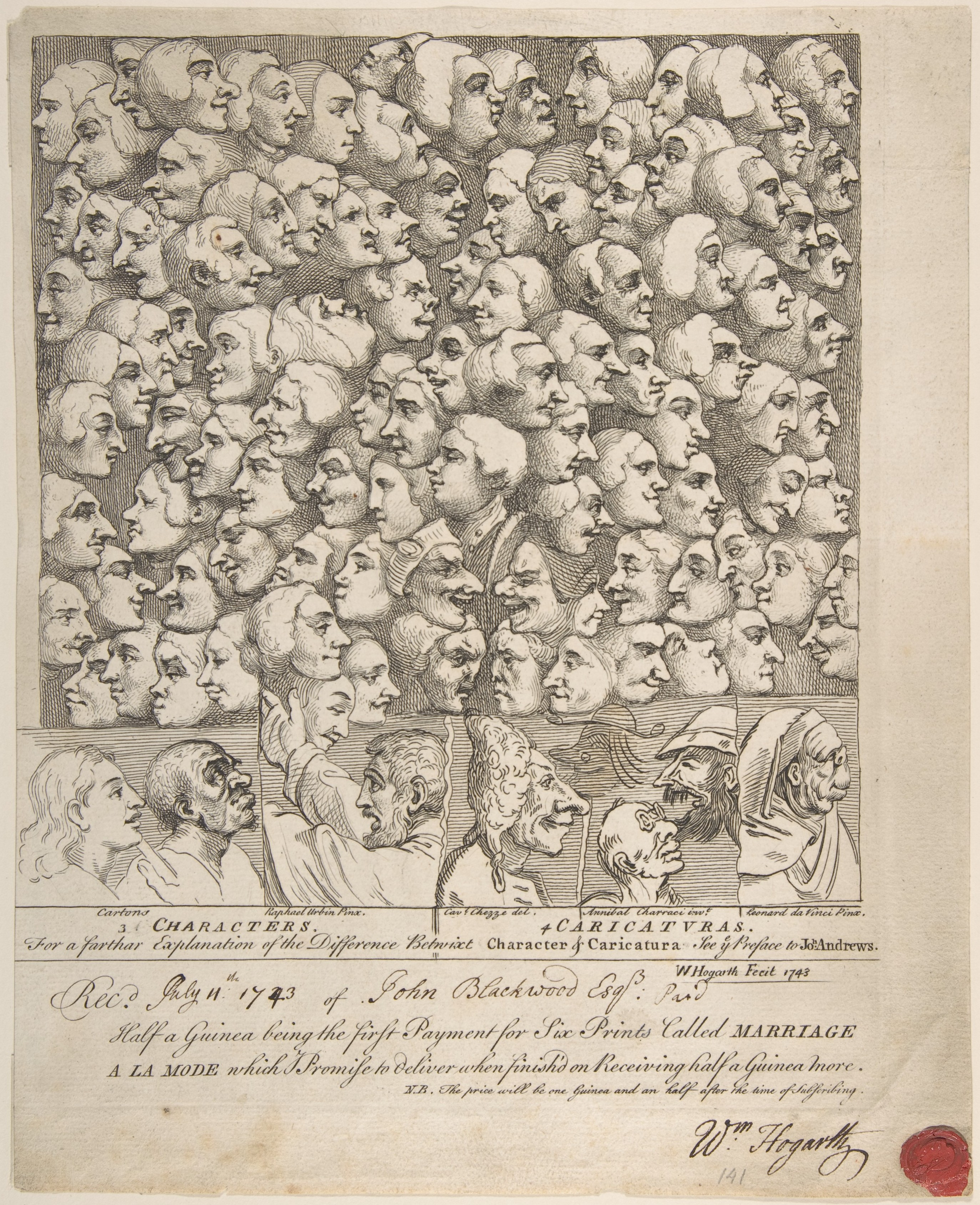 Print; Prints